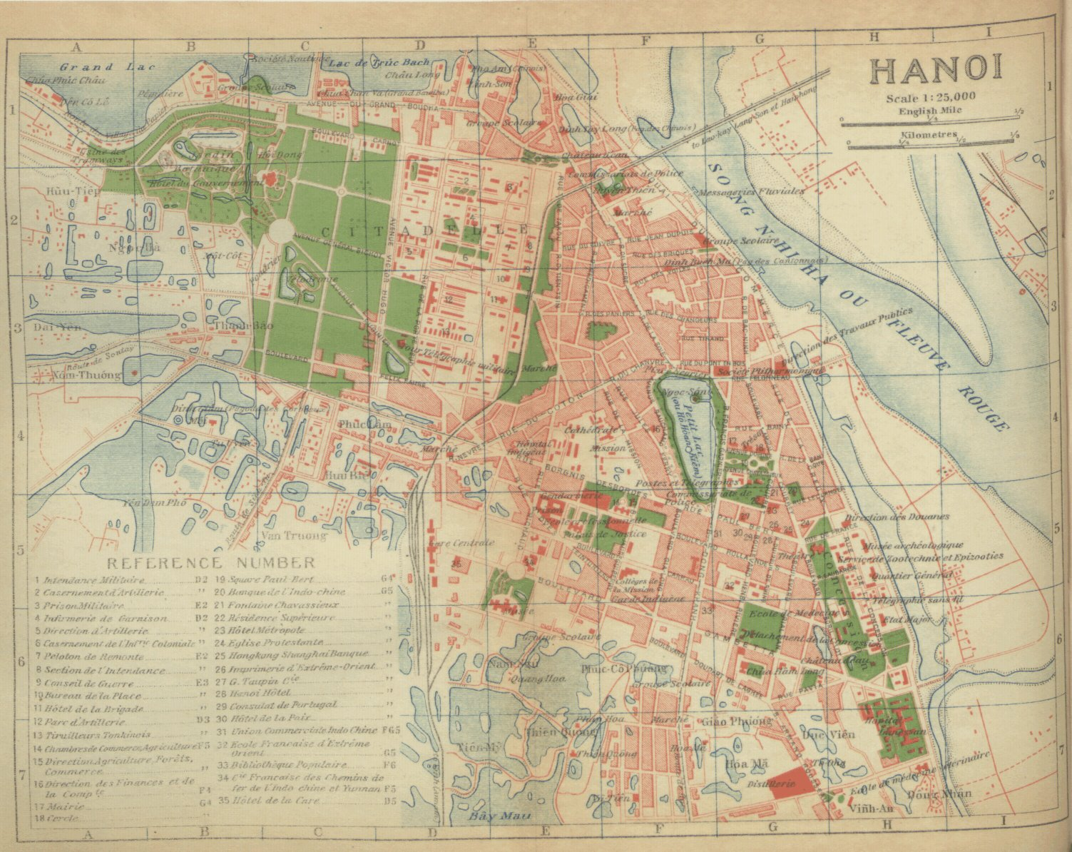 Map of Hanoi printed in a book published by Japanese Department of Railways in 1920 named "An official guide to eastern Asia - vol 5".